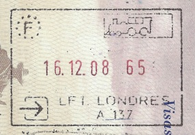 French passport stamp from St Pancras International station.